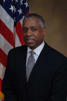 Official ATF portrait of B. Todd Jones.